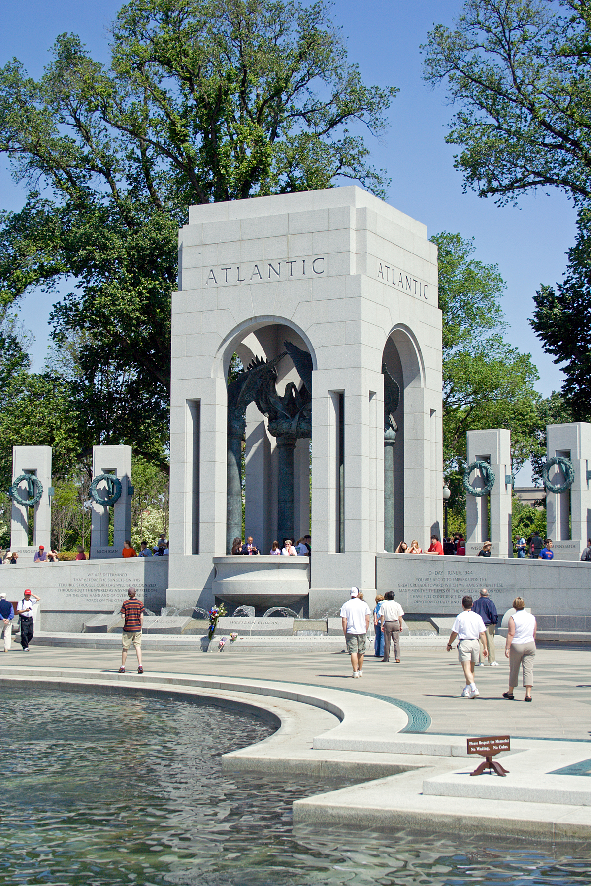 The Atlantic Theater arch at the World War II Memorial in Washington, D.C.